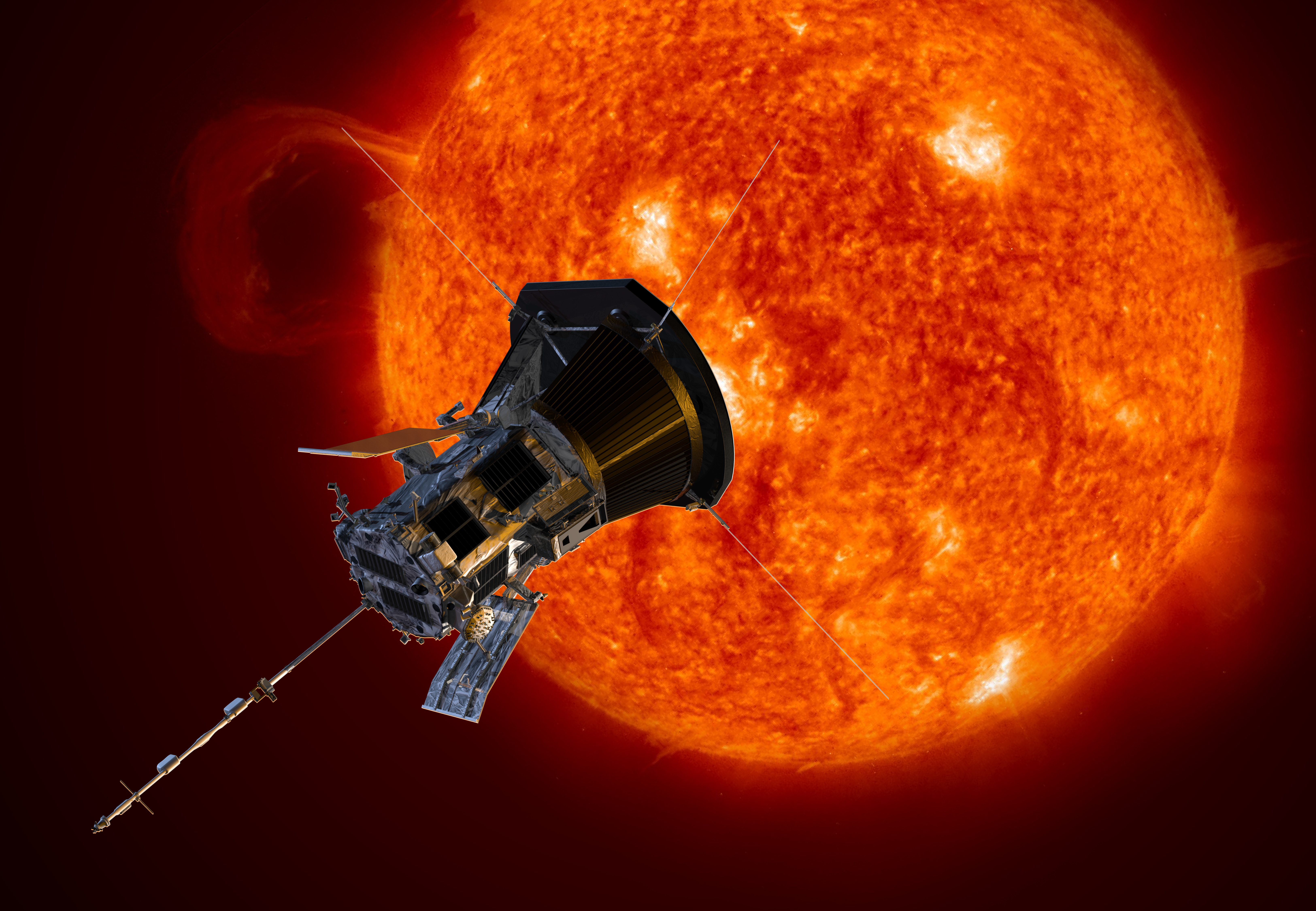 Parker Solar Probe artist rendering Artist’s concept of the Parker Solar Probe spacecraft approaching the sun. Launching in 2018, Parker Solar Probe will provide new data on solar activity and make critical contributions to our ability to forecast major space-weather events that impact life on Earth.